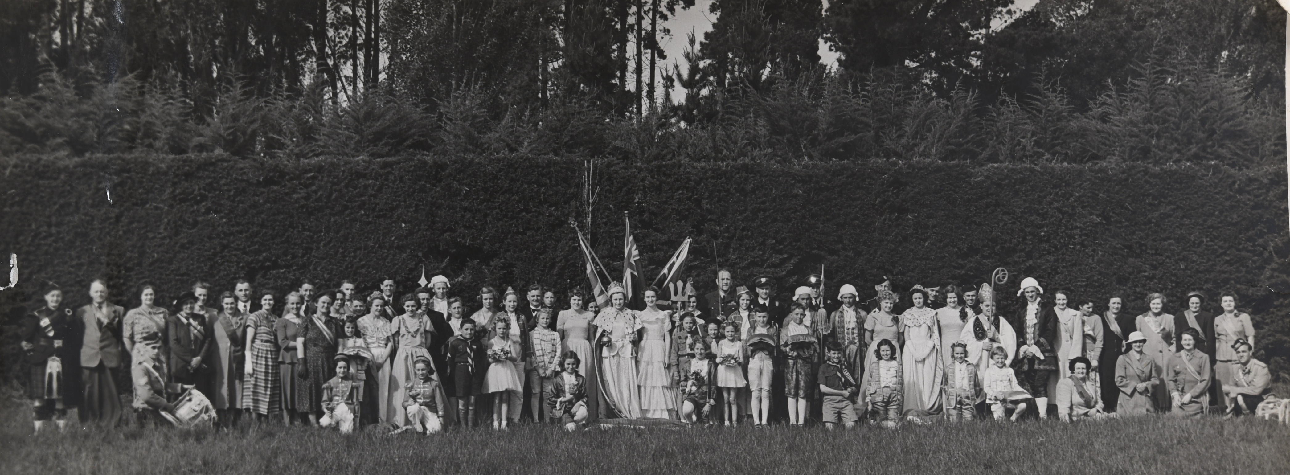 Burwood School combined with local Girl Guide and Scout troops in 1951